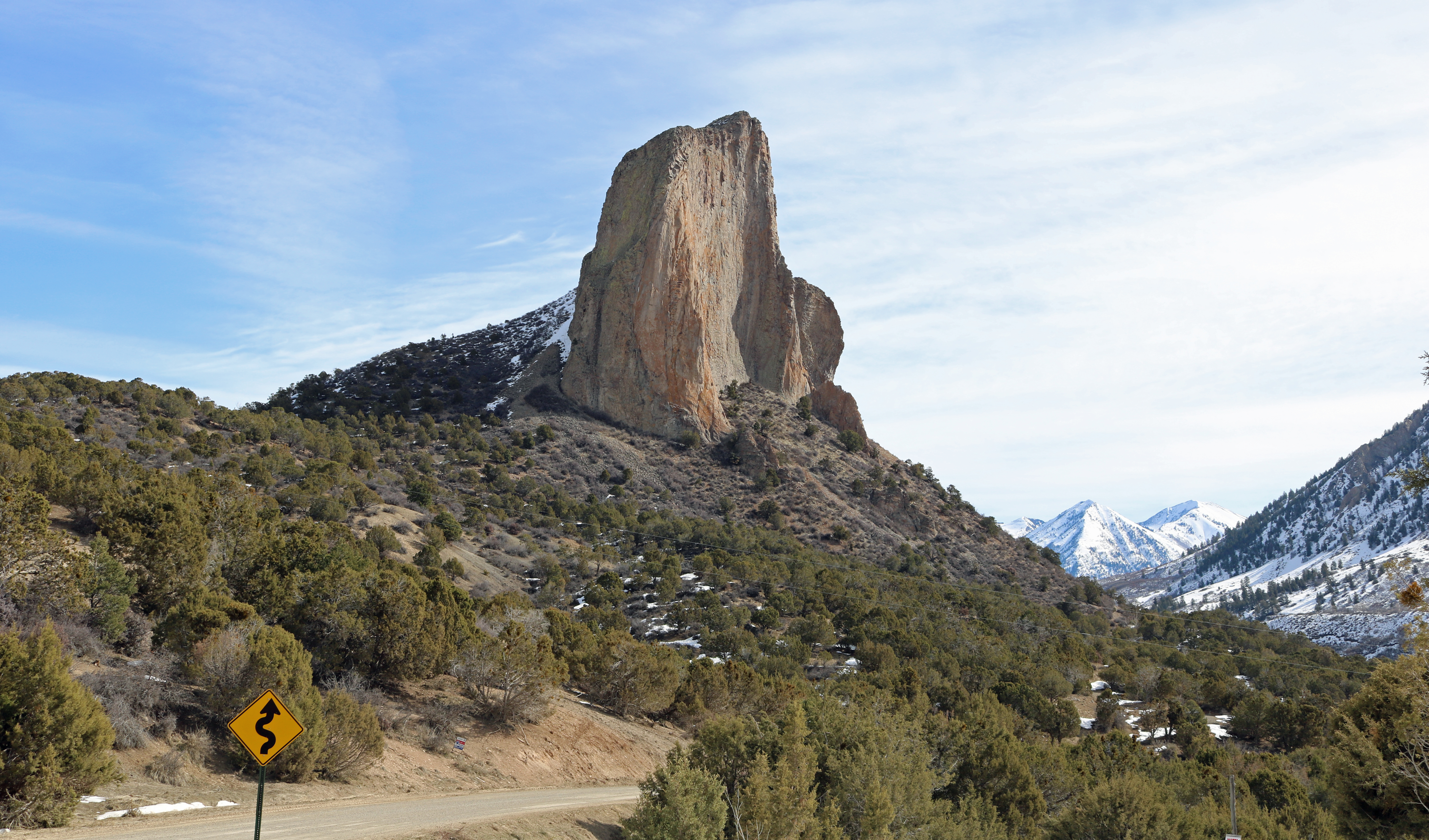 The Needle Rock Natural Area, located near Crawford, Colorado in Delta County. The Needle Rock, also called the Crawford Needle, is an intrusive plug of monzonite porphyry.